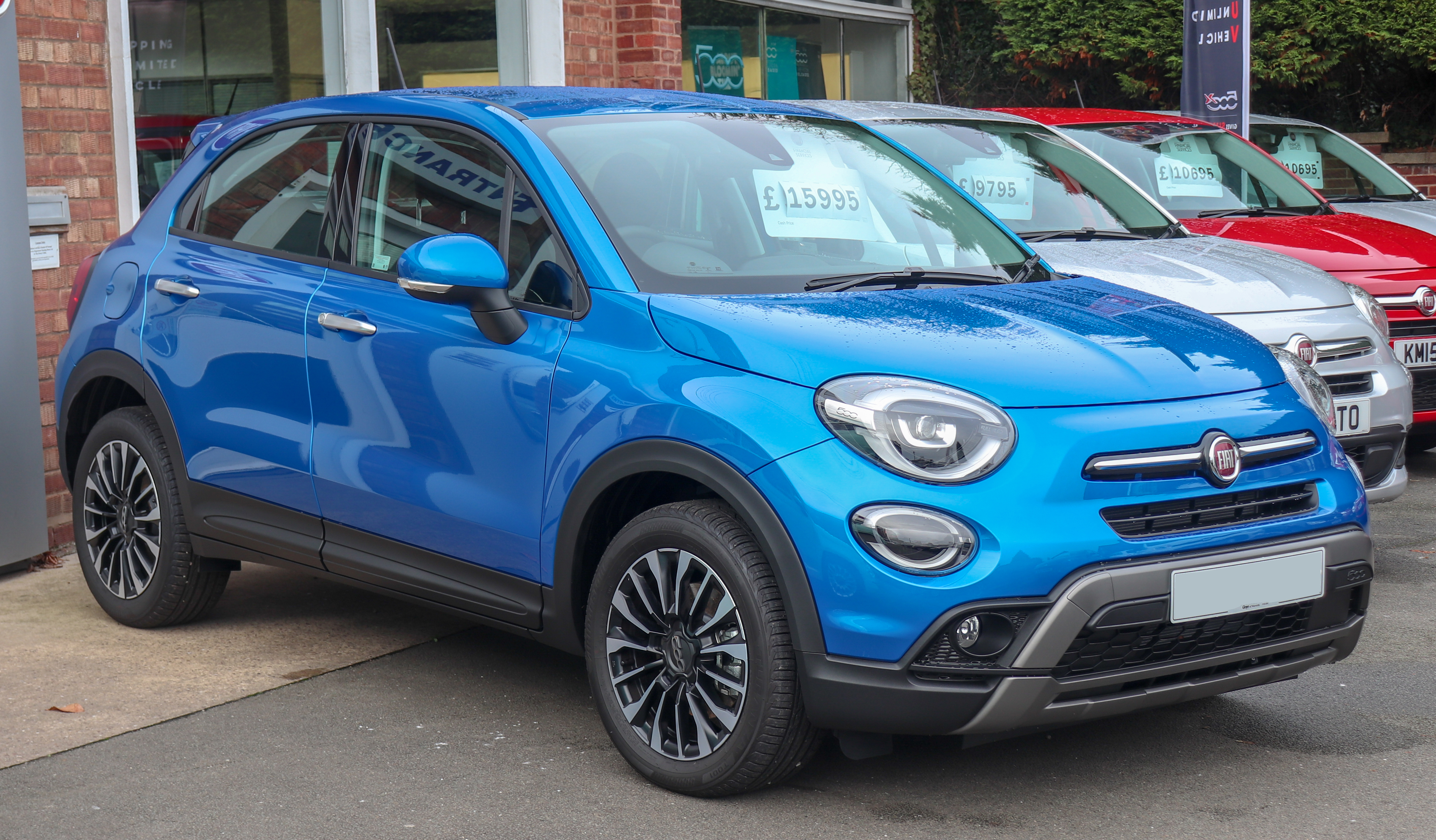 2018 Fiat 500X City Cross Look 1.0 facelift